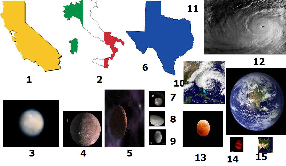 These are examples of 15 things which are in the Megametre group. 1. California 2. Italy 3. Ceres 4. Quaoar 5. Sedna 6. Texas 7. Pluto 8. Triton 9. Dione 10. Hurricane Sandy 11. Typhoon Tip 12. Earth 13. The Moon 14. Gliese 229A 15. Asia